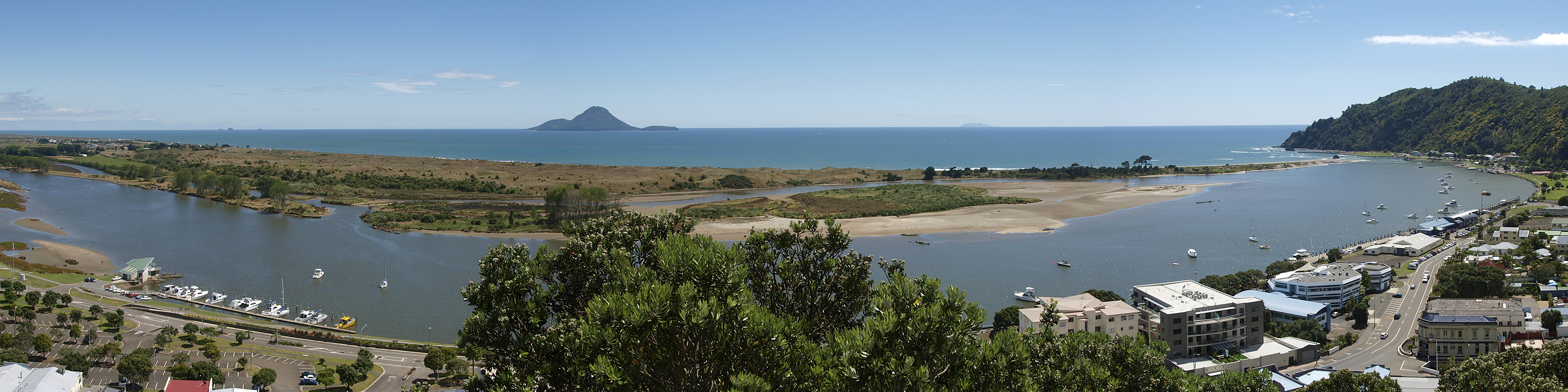 Whakatane River, Whakatane (Town), Bay of Plenty, New Zealand. right: Whakatane Heads (Kohi Point), middle: Moutohora Island and Whakaari/White Island far away in the background. Pazific Ocean.